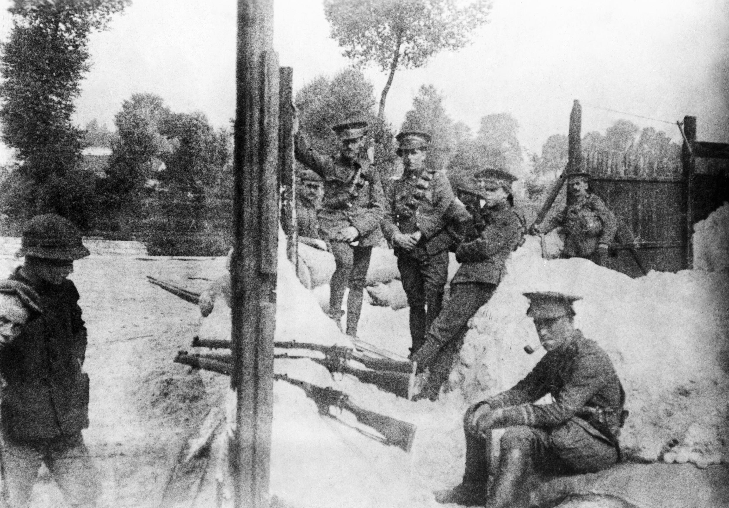 Soldiers of the 4th Dragoon Guards take up defensive positions while waiting for the 4th Battalion, Royal Fusiliers.